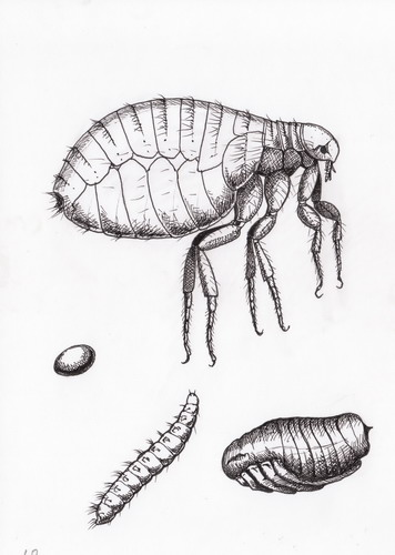 Human flea (Pulex irritans)